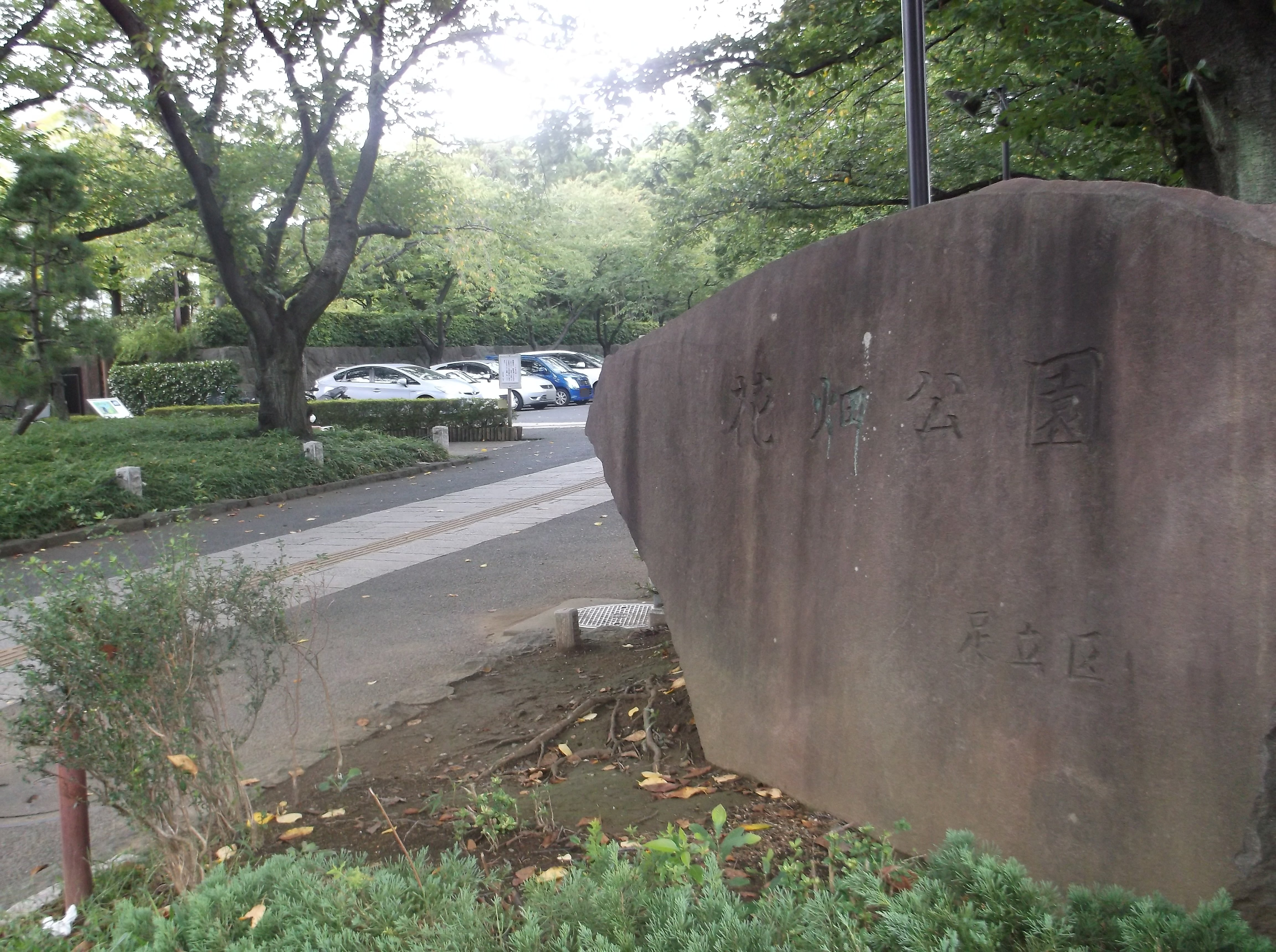 A photo of an entrance of Hanahata Park,Hanahata,Adachi-ku,Tokyo,Japan.